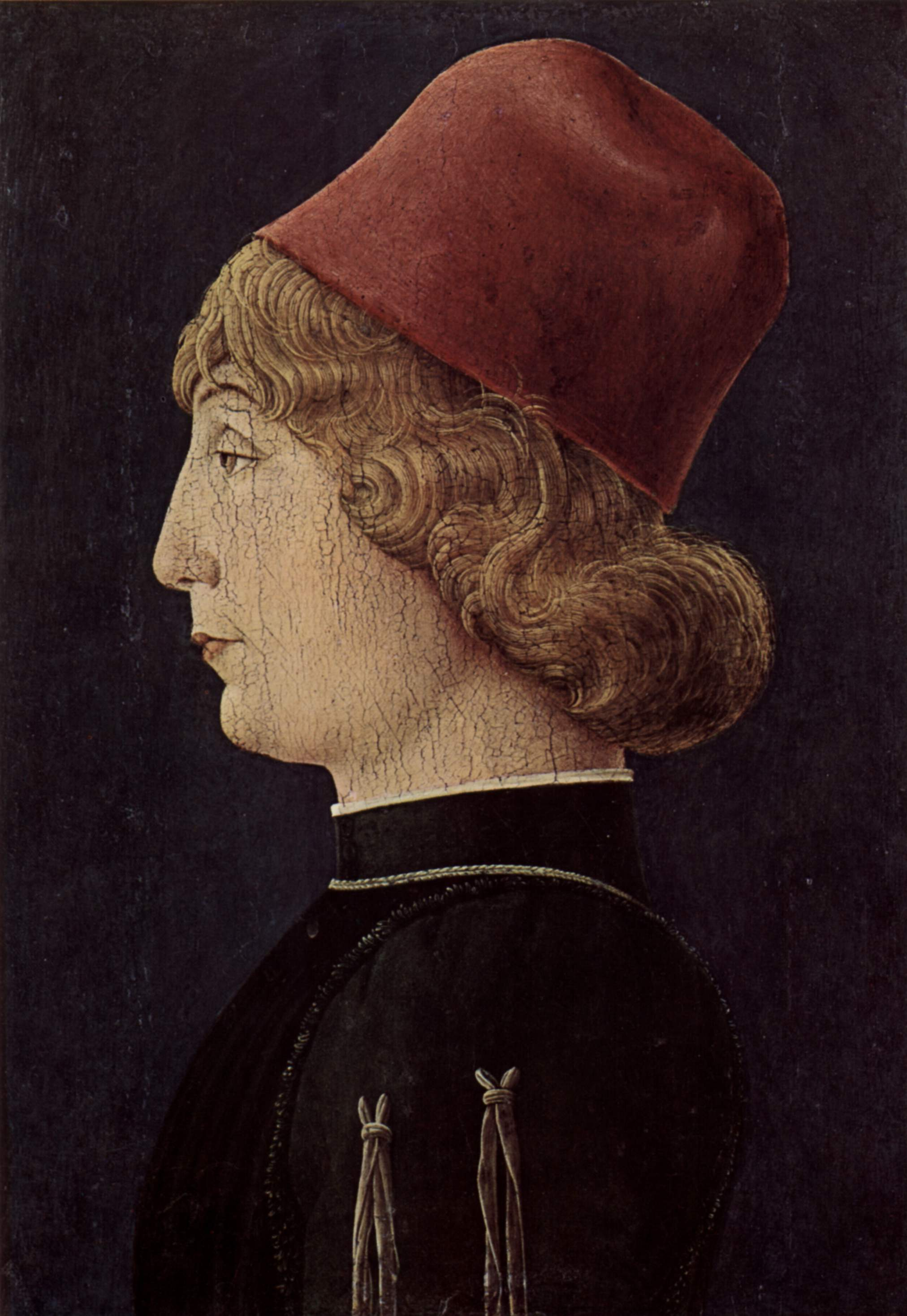 usually considered the sole survivor of Cosmè Tura's activity as a portrait painter at the Este court of Ferrara.